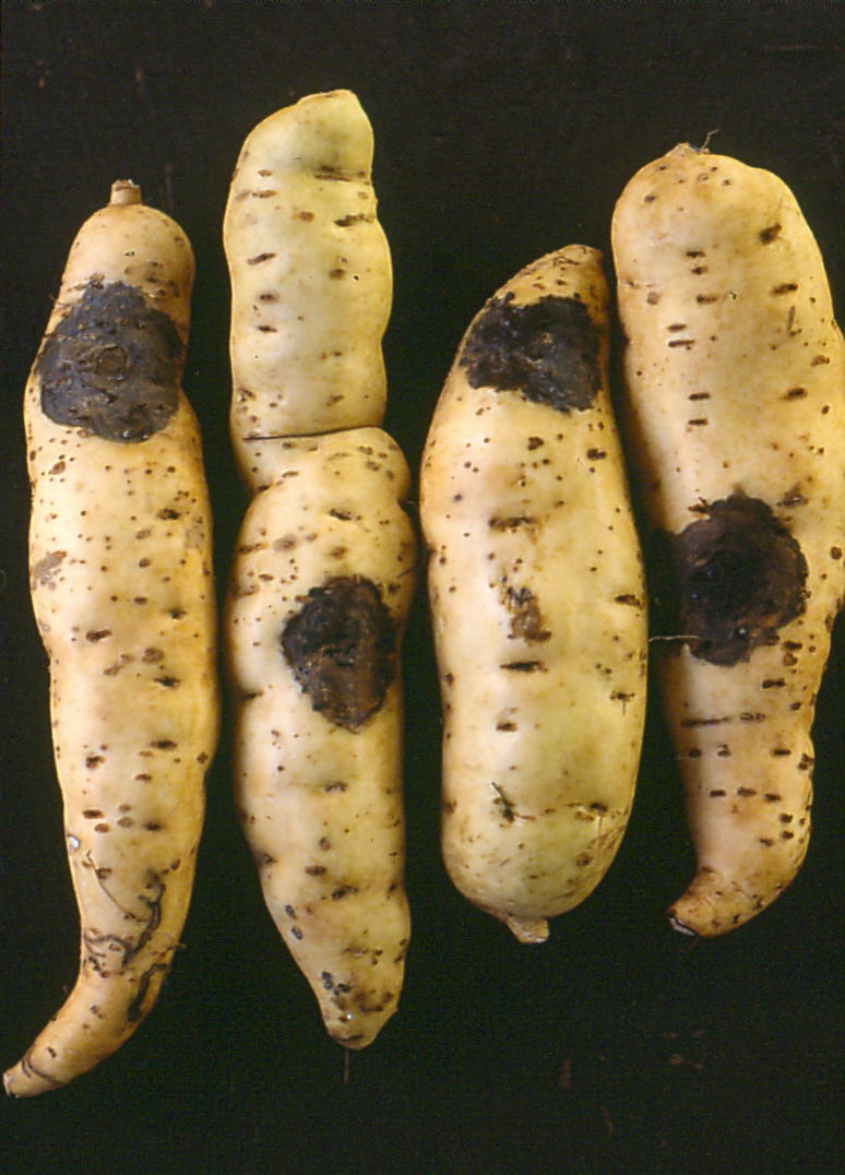 Ceratocystis black rot of sweetpotato.